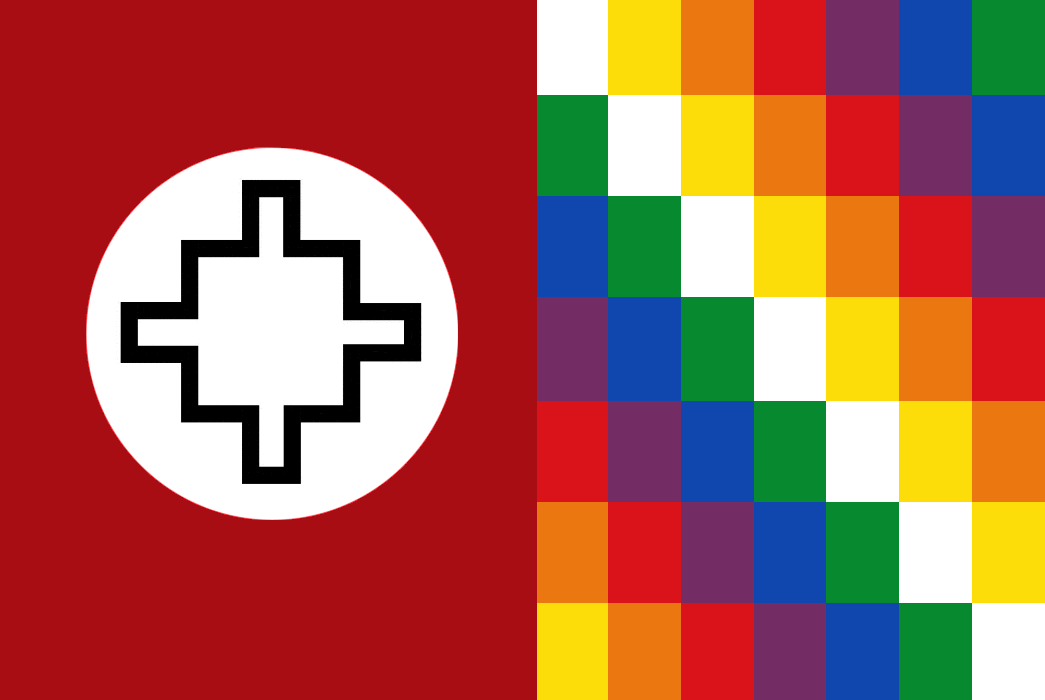 Flag of the ethnocacerist movement